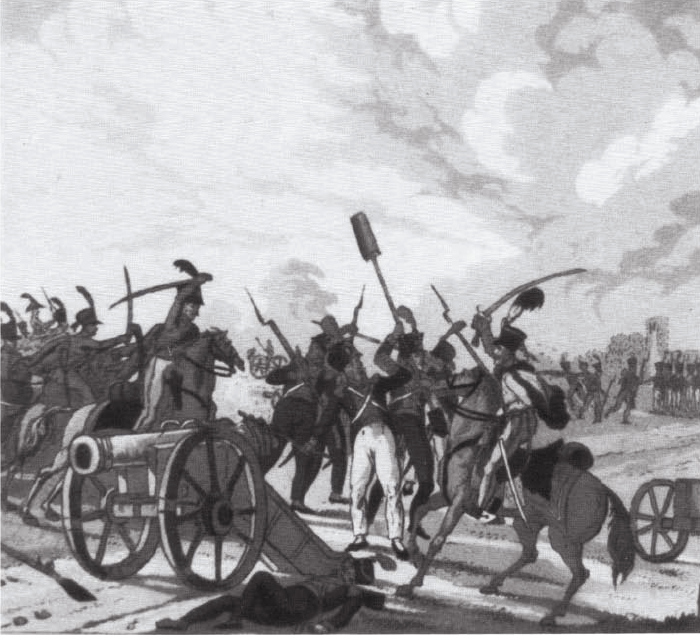 Austrian hussars capture Boudet's guns, not far away from the village of Aspern. Engraving held at the HGM Museum in Vienna.